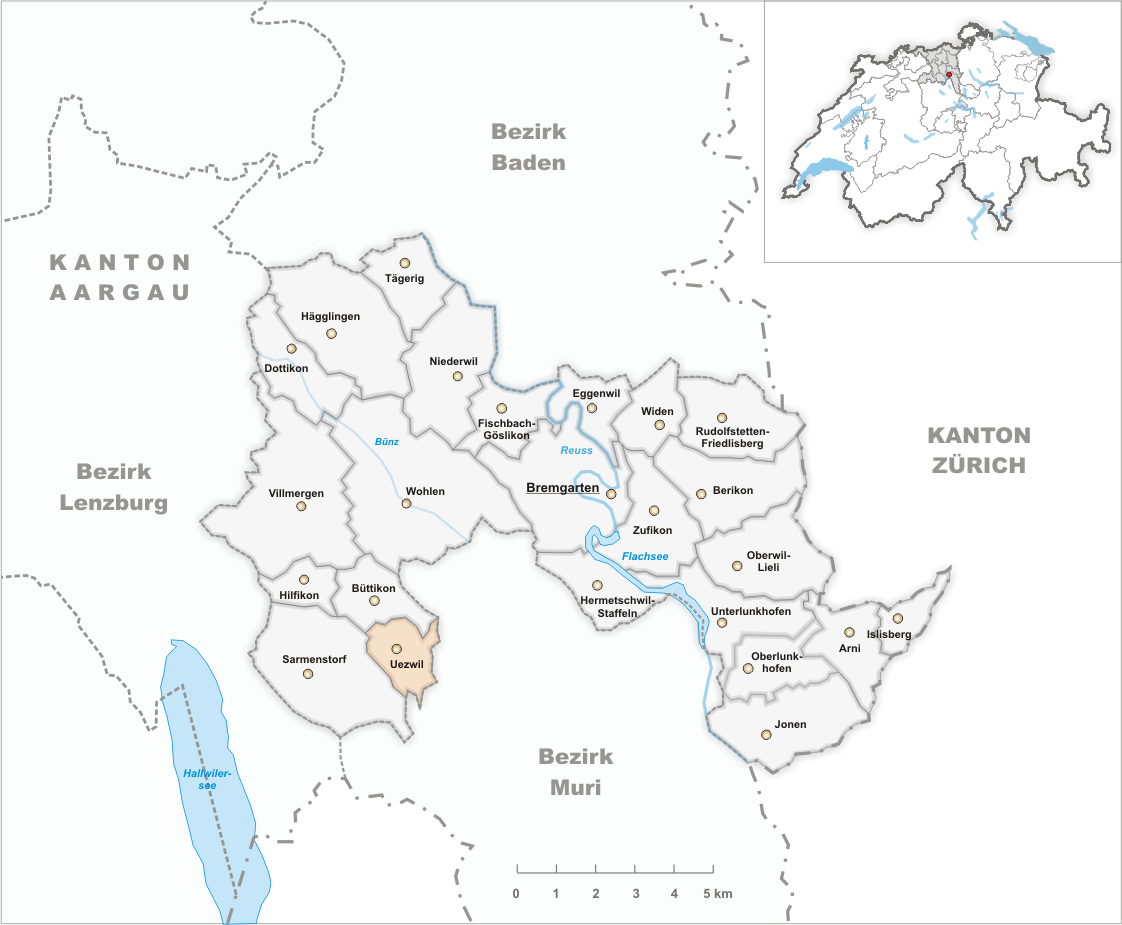 Municipality Uezwil